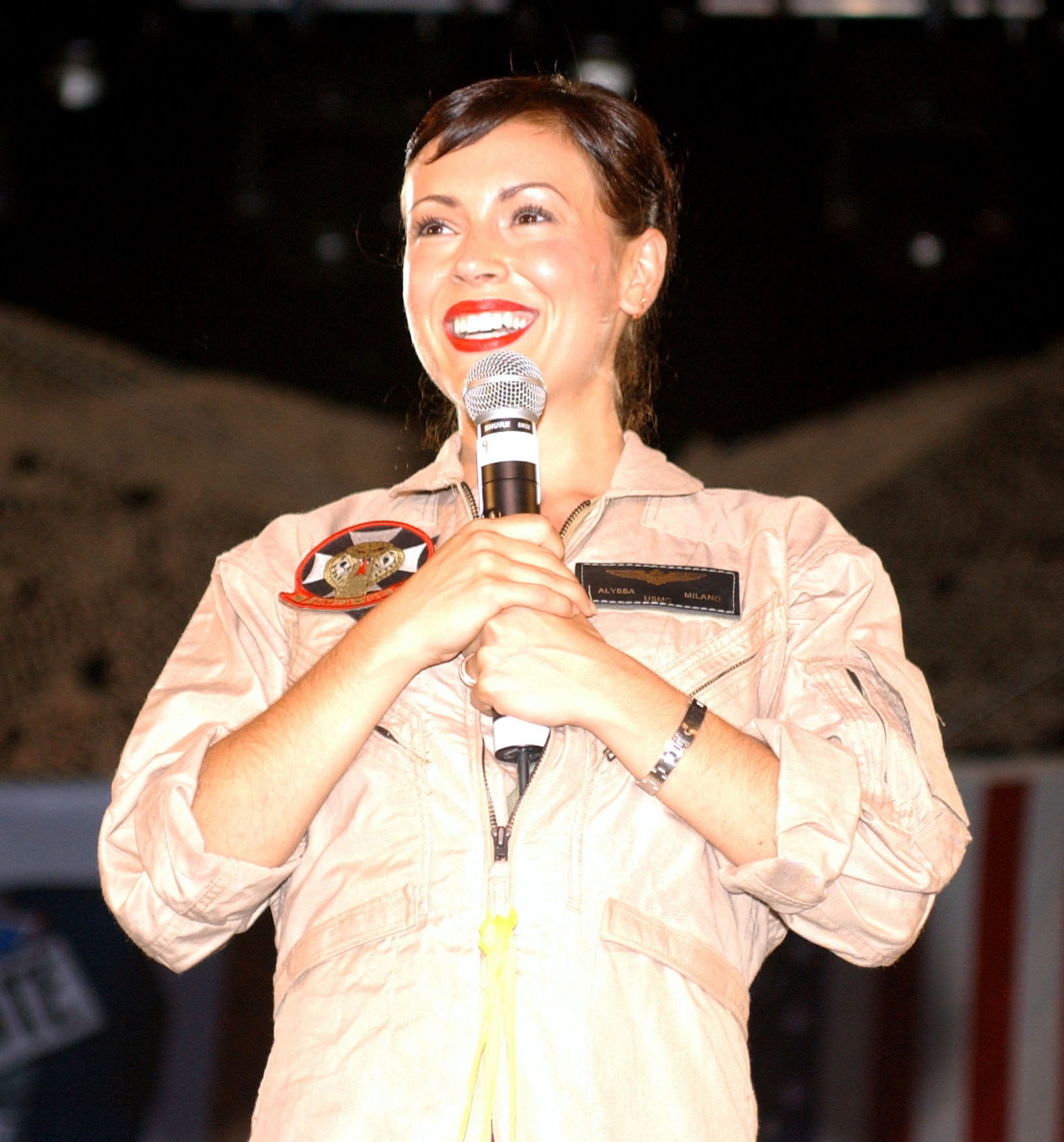 Original caption: "030618-F-9753B-016 Entertainer Alyssa Milano expresses her gratitude to all the troops during a United Service Organizations (USO) tour, "Project Salute 2003," which pays tribute to the men and women of the US and coalition armed forces."